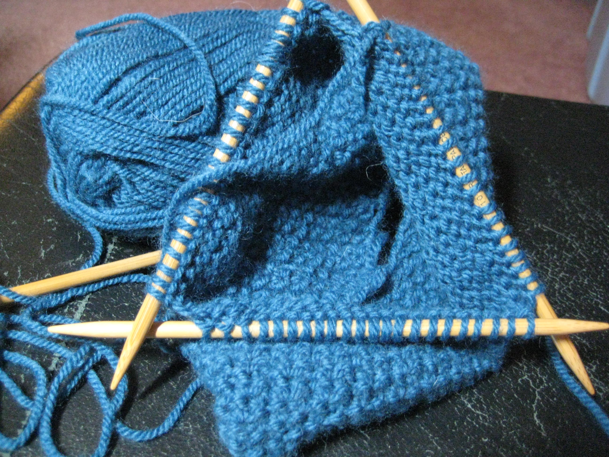 Double pointed knitting needles in action. A fourth needle (not shown) is used to create new stitches while the remaining three needles hold the stitches together.